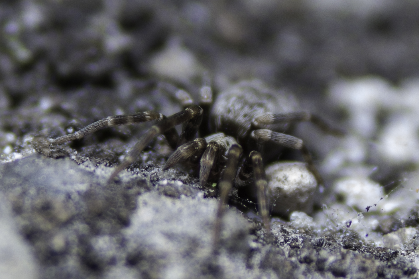 Miembro de Filistatinella